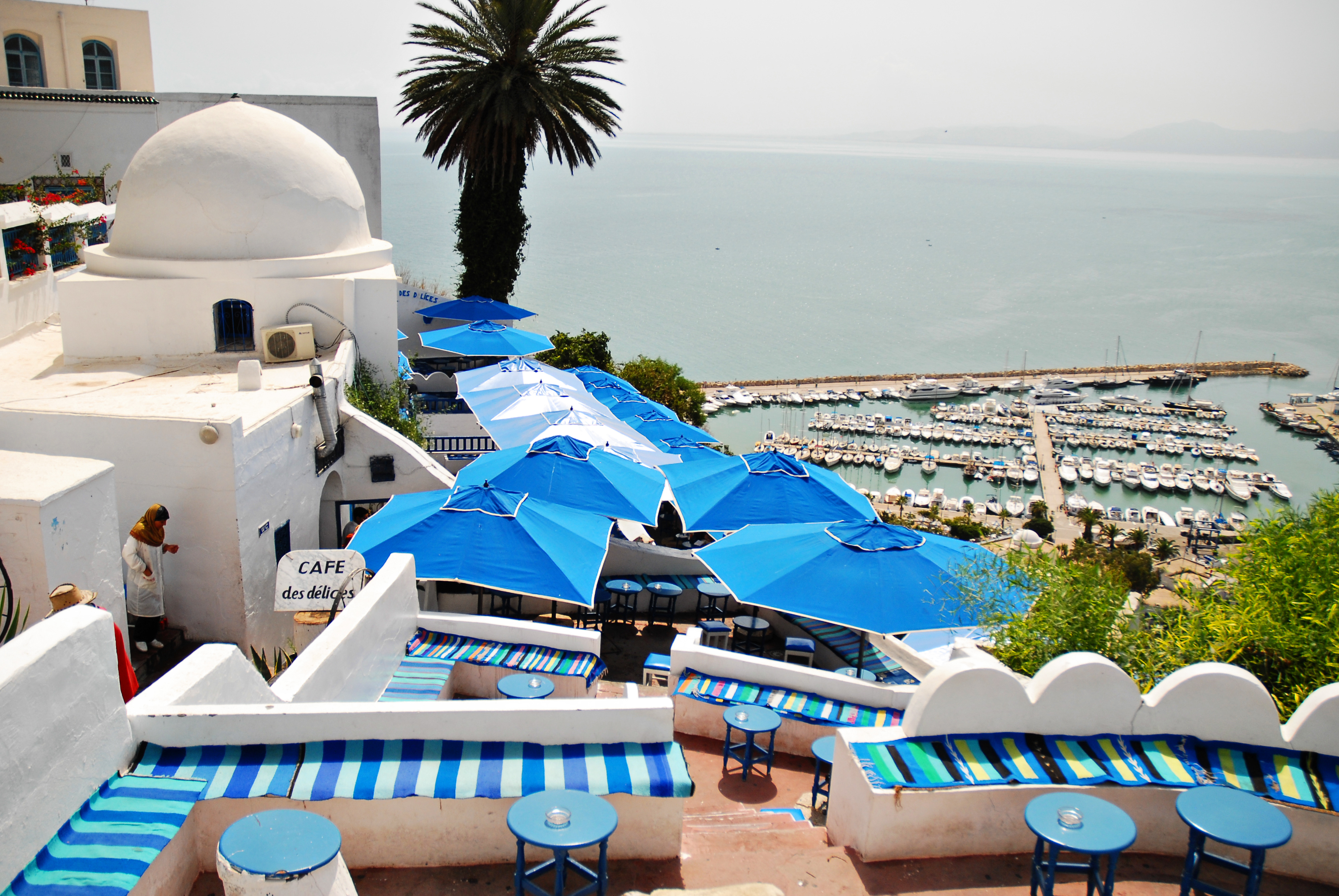 View of Sidi Bou Said port. Northern Tunisia, Mediterranean Sea, Northern Africa.